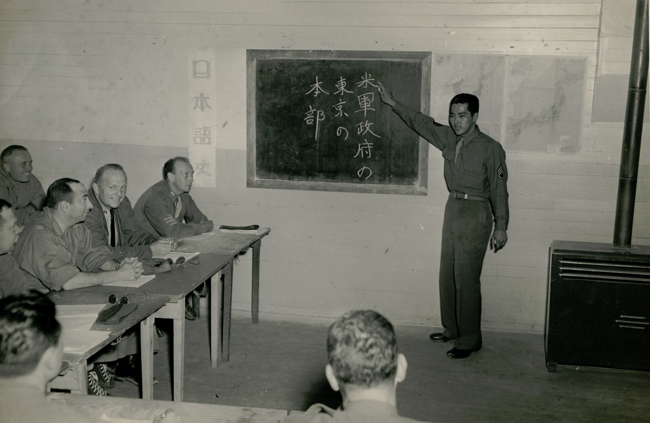 Japanese language training at the Civil Affairs Staging Area(CASA)in the Spring of 1945.